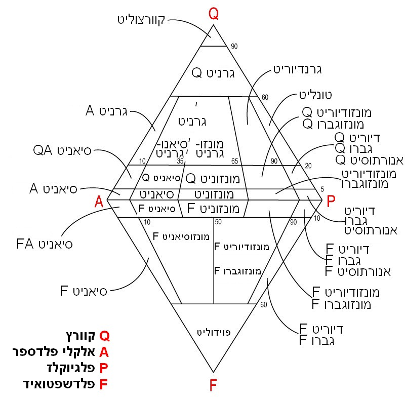 QAPF diagram for classification of plutonic rocks, Hebrew